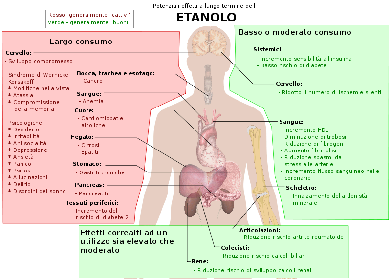 Most significant possible long-term effects of ethanol. Sources are found in main article: Wikipedia:Ethanol#Long-term. Model: Mikael Häggström. To discuss image, please see Template_talk:Häggström diagrams